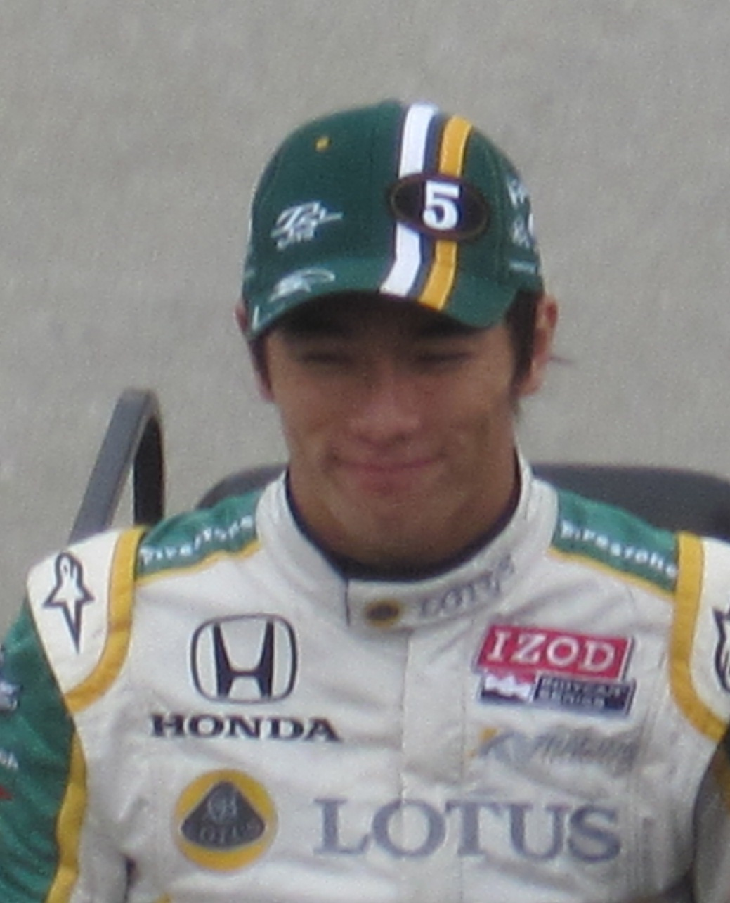 KV Racing Technology's Takuma Sato at the Indianapolis Motor Speedway for day 1 of practice for the 2010 Indianapolis 500 on Saturday, May 15, 2010.